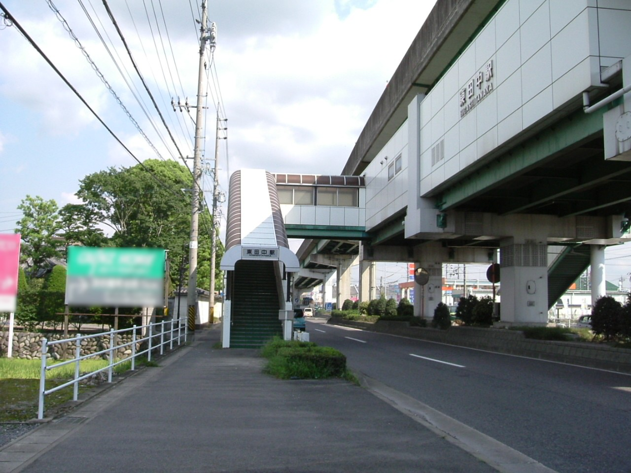 Higashitanaka Station is a train staion in Komaki, Aichi, Japan, on the Tokadai Line. 東田中駅は、愛知県小牧市にある桃花台線の駅。写真は北口。